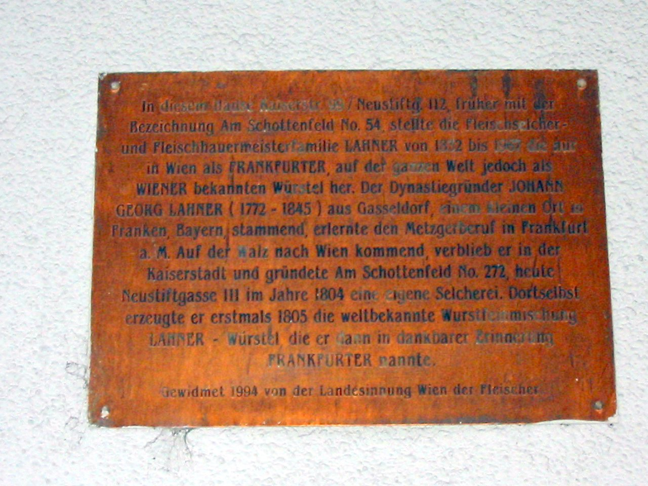 Memorial plaque for the originator of the Vieneese sausage in Vienna / Austria / Europe.